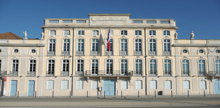 City Hall of Macon (France)